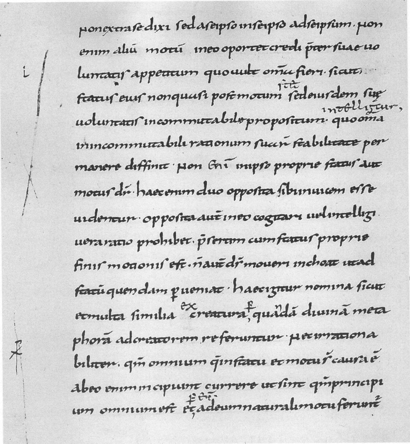 John Scotus Eriugena, Periphyseon, in a manuscript which is believed to be partly an autograph. Reims, Bibliothèque municipale, 875, fol. 15v.